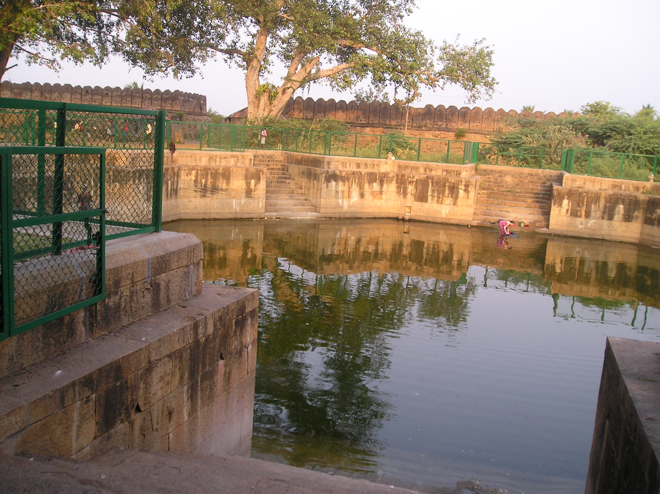 Thirumeyyam